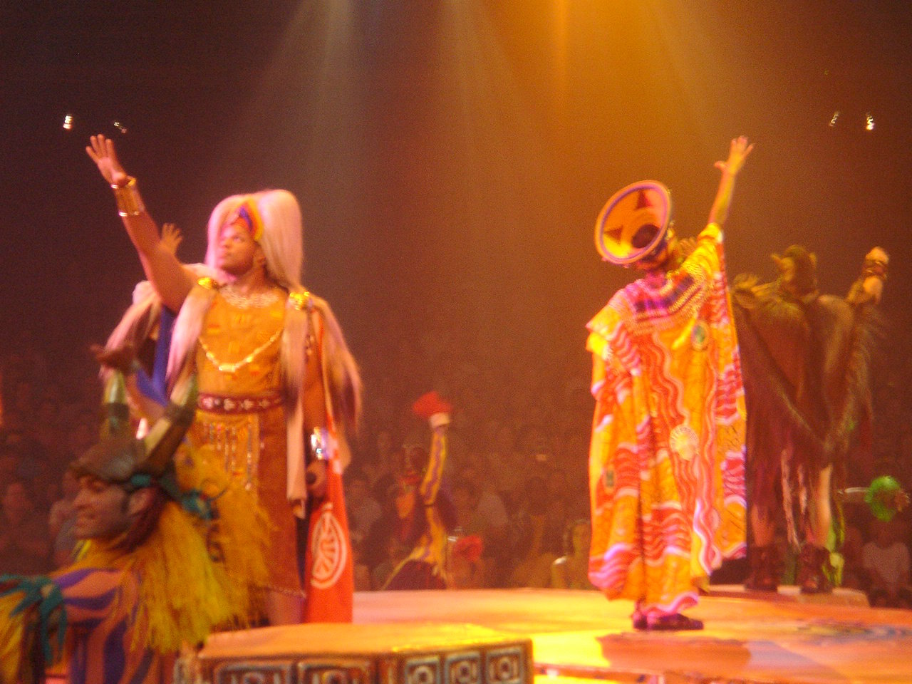 Photo of the live show Festival of the Lion King, Disney Animal Kingdom, Orlando, Florida